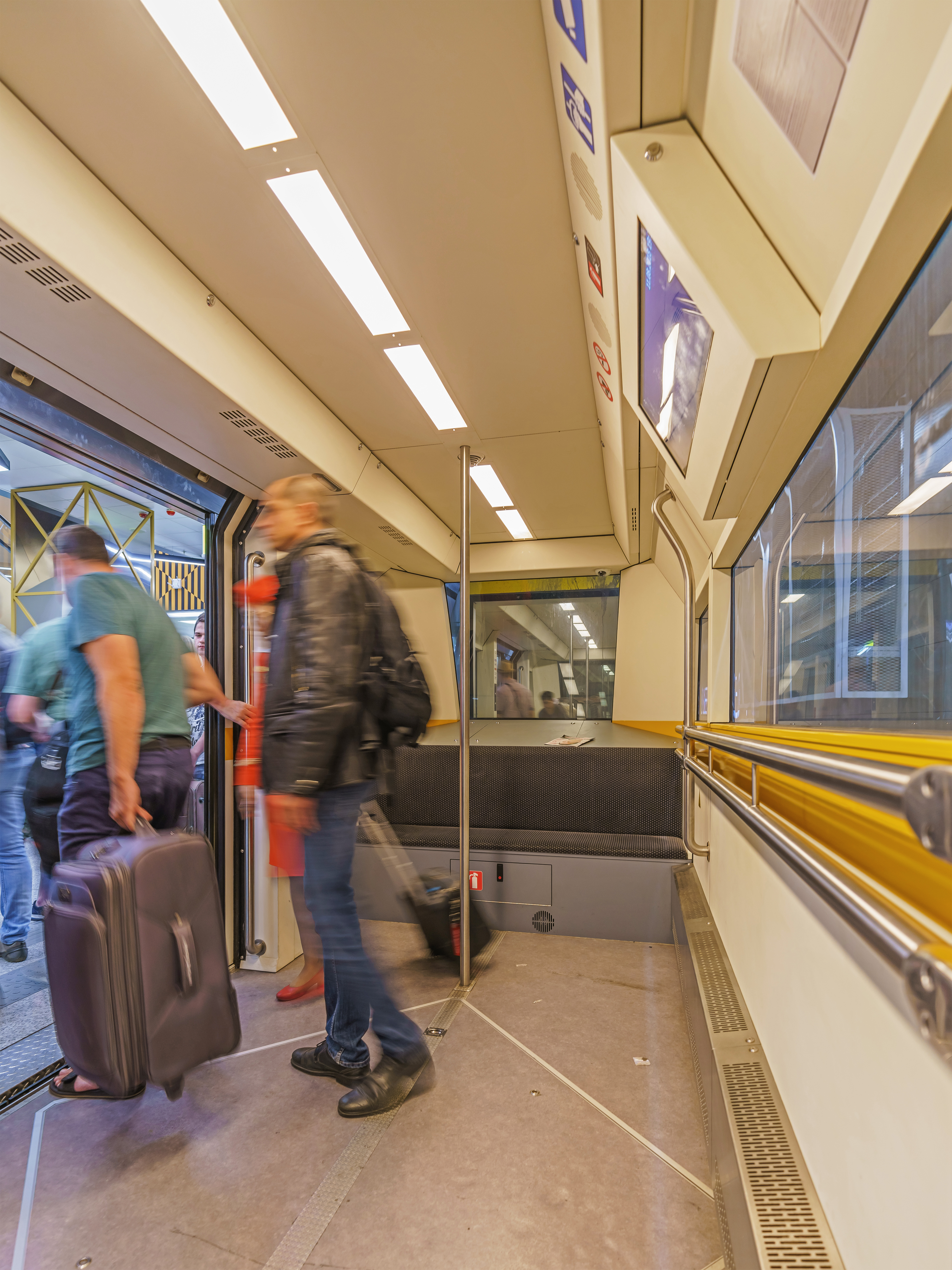 Sheremetyevo-1 station of the cross-terminal underground peoplemover at Sheremetyevo Int. Airport, Moscow Oblast, Russia. Interior of the coach.